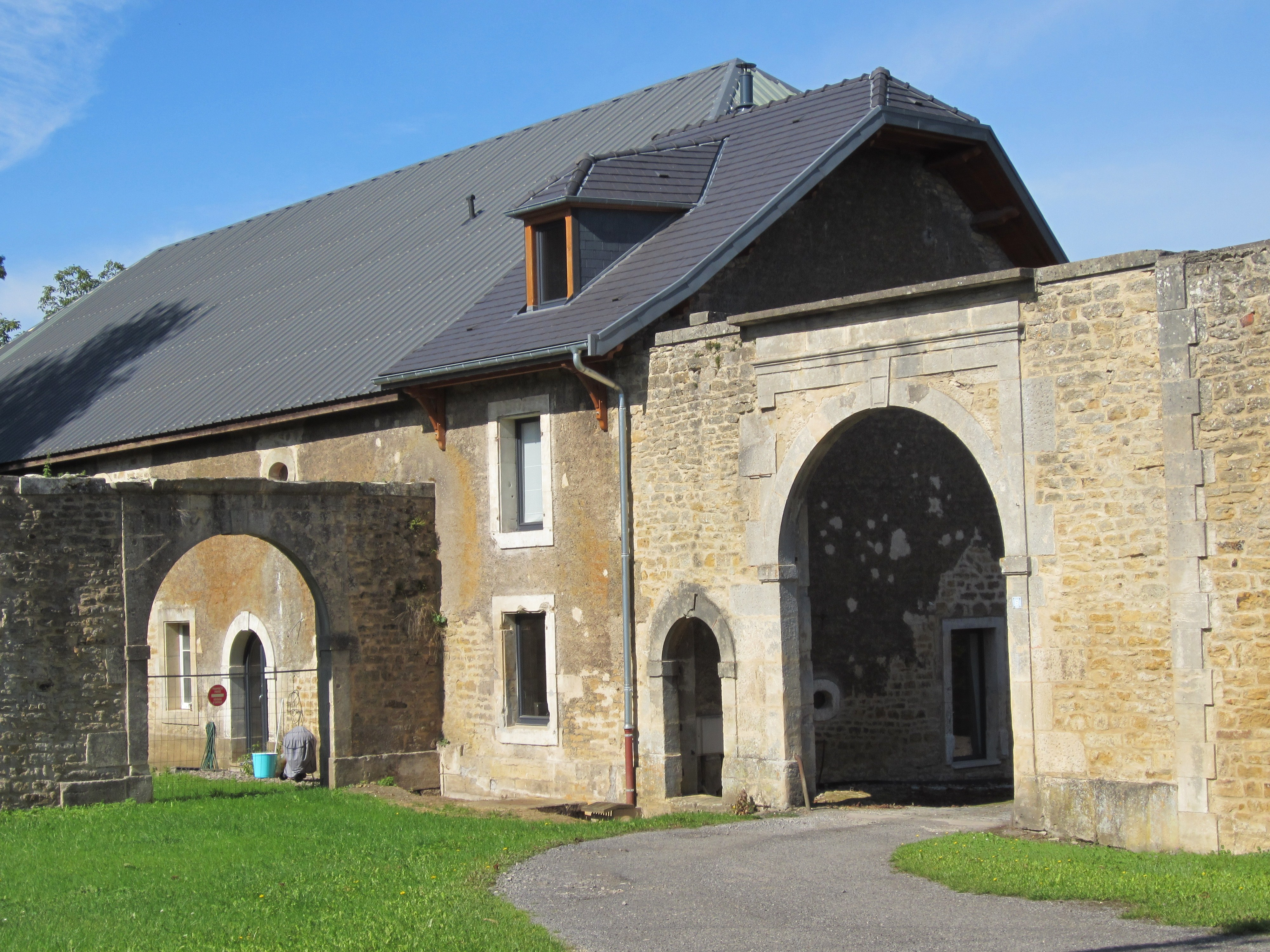 Description porte chateau Tiercelet Date16 September 2011Sourcemon appareil photoAuthorAimelaimePermission (Reusing this file) porte chateau Tiercelet